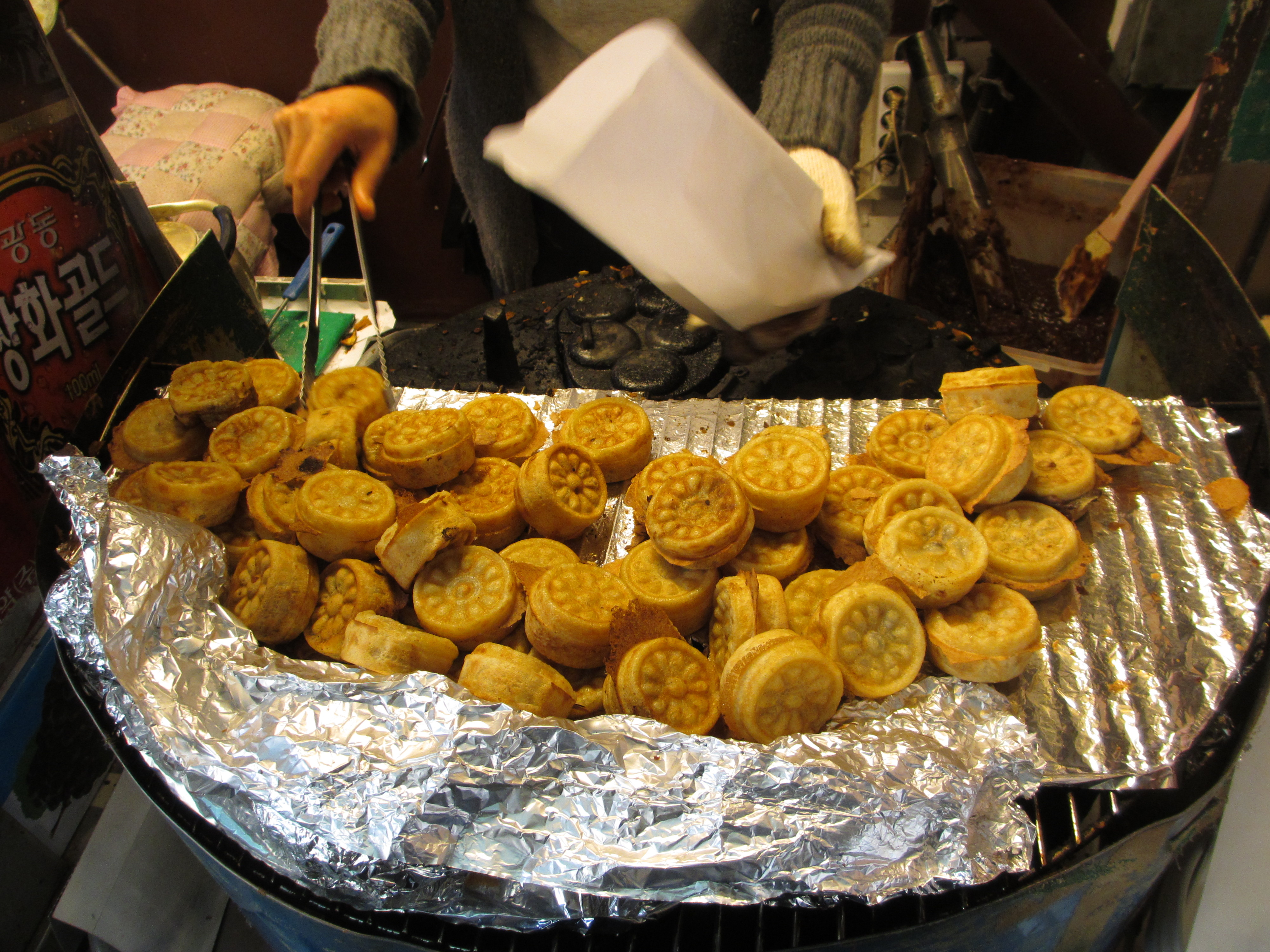 Chrysanthemum Bread